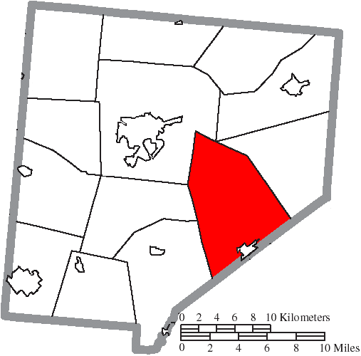 Map of the municipal and township boundaries of Clinton County, Ohio, United States, as of the 2000 census, with the location of Green Township highlighted. Township borders are shown only in unincorporated areas in order to differentiate incorporated and unincorporated areas more clearly.